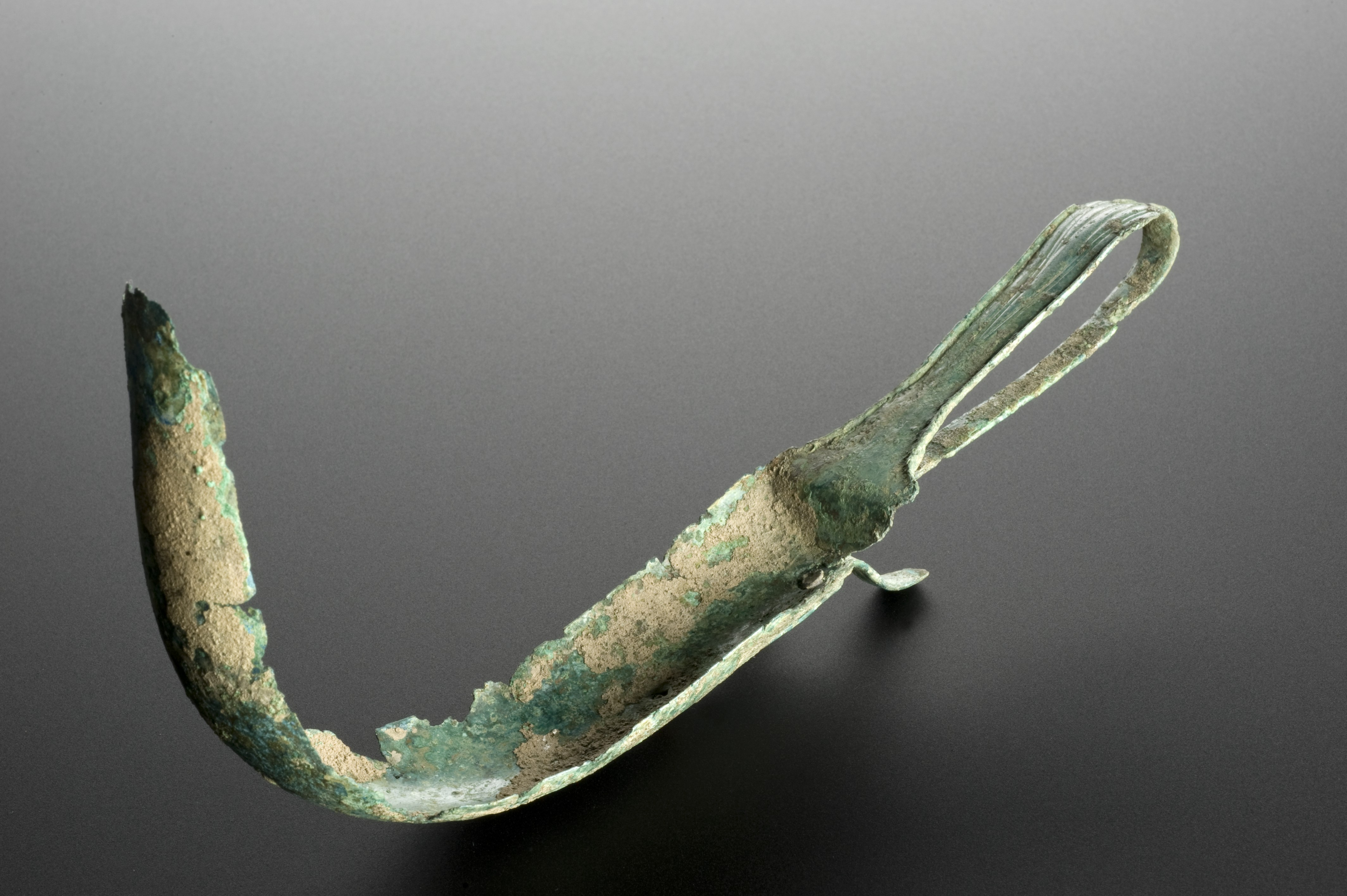 This heavily corroded set of bronze strigils shows the classic claw-like shape typical of these utensils. Part of the bathing and personal hygiene routine in ancient Rome involved cleaning the body with oil. Having rubbed the oil in, a strigil was used to scrape away any excess as well as any dead skin and dirt. Athletes also used strigils to remove dirt, dust and oil from their bodies after exercise. This was sometimes bottled and sold as a medical treatment called gloios to relieve aches, pains and sprains. maker: Unknown maker Place made: Roman Republic and Empire Wellcome Images Keywords: strigil; Hygiene